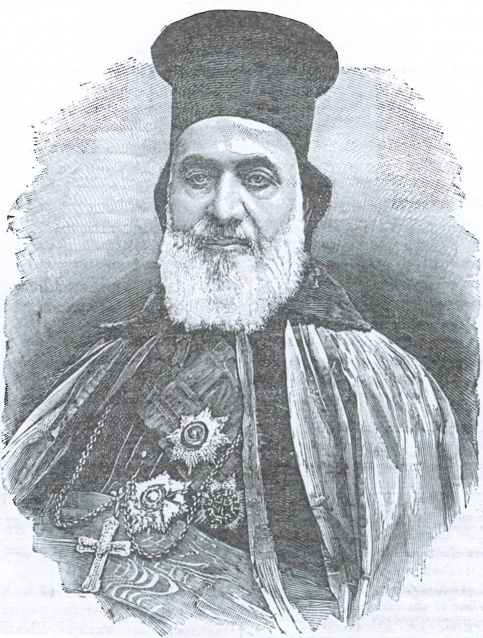 Mar Ignace Behnam II Benni (1831–1897), Patriarch of the Syriac Catholic Church from 1893 to 1897.